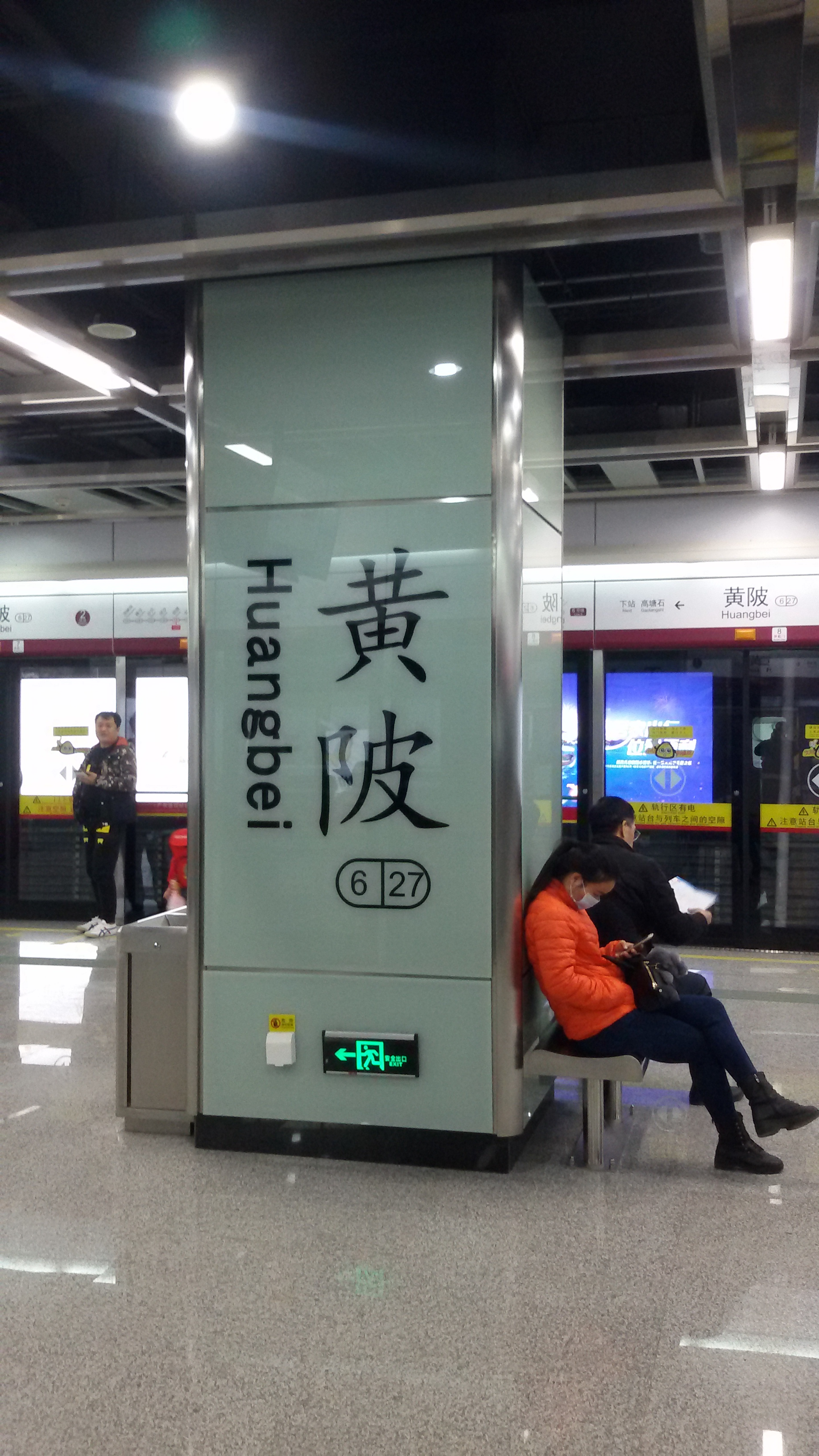 WORD on PILLAR for Huangbei Station in Guangzhou Metro